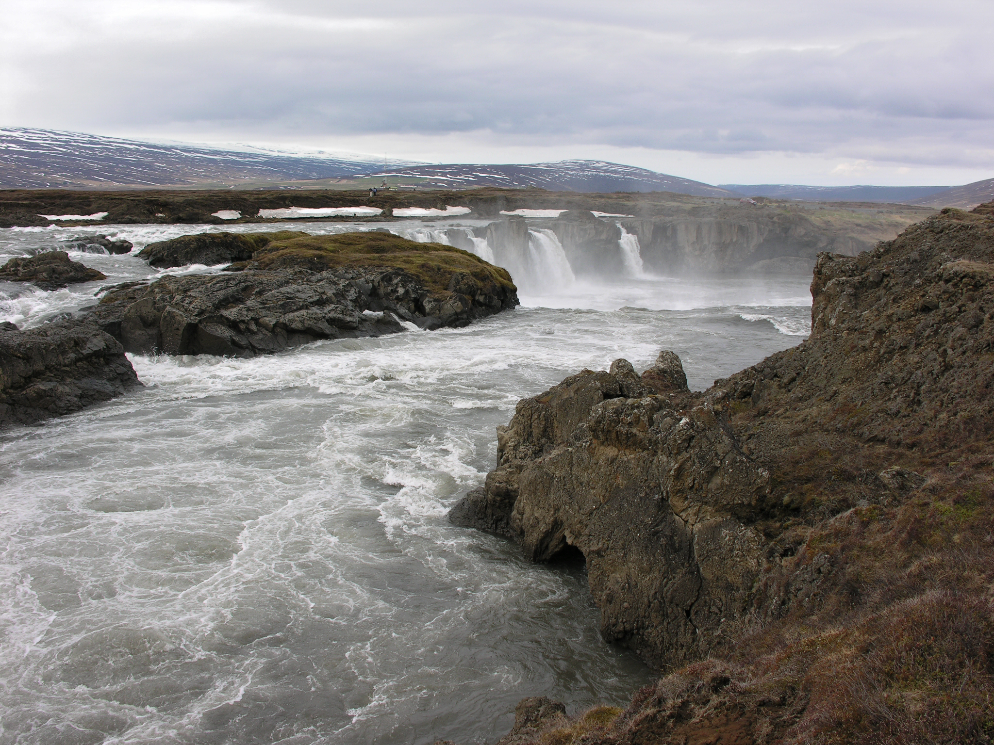 Iceland, Goðafoss